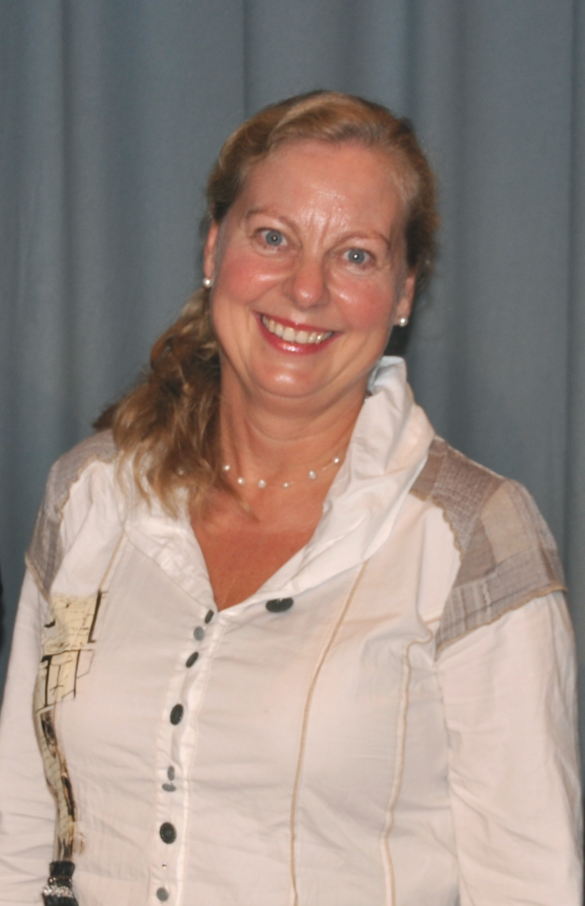 Berit Svendsen, CEO of Telenor Norway. Formerly CEO of Conax.